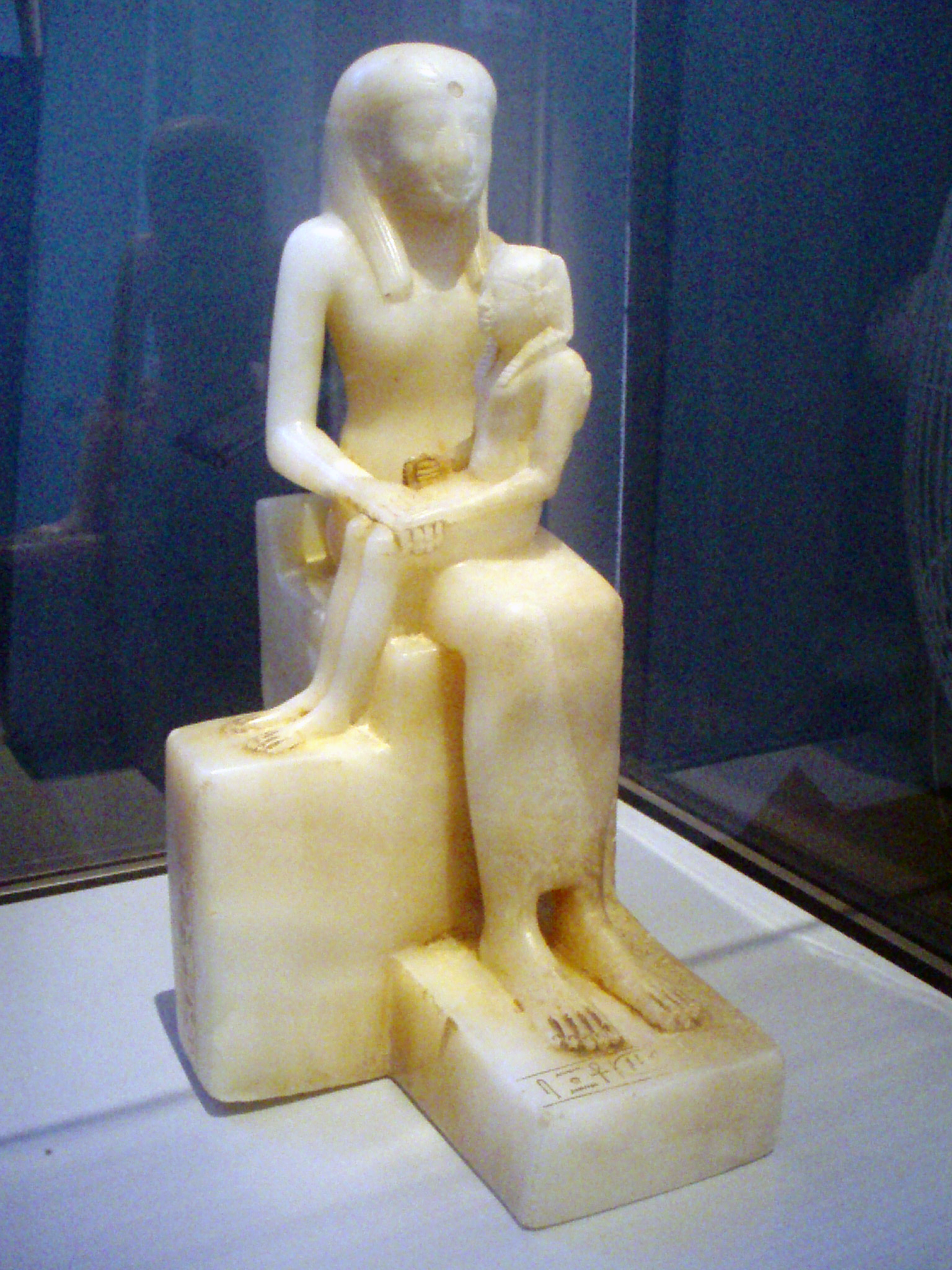 Alabaster statue of Ankhnes-mertre II and her son Pepi II. Old Kingdom, Dynasty VI, circa 2288-2224/2194 B.C.